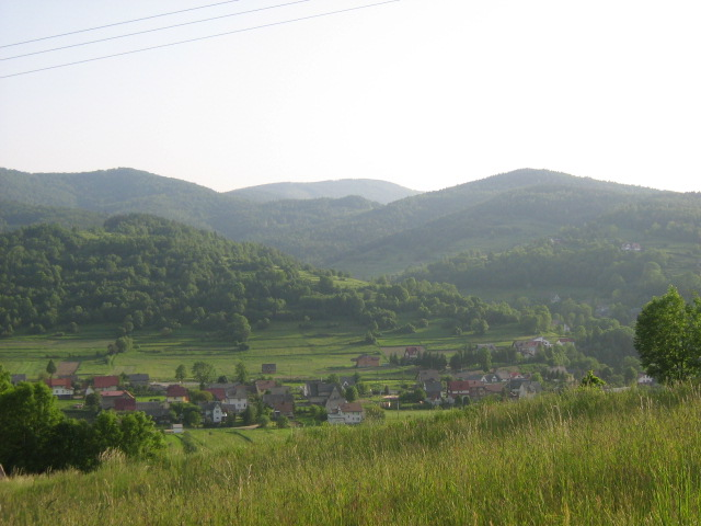 View of Osielec and Polic Band in the background.